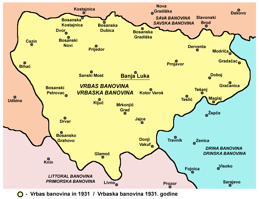 Vrbas banovina (province) of the Kingdom of Yugoslavia in 1931.